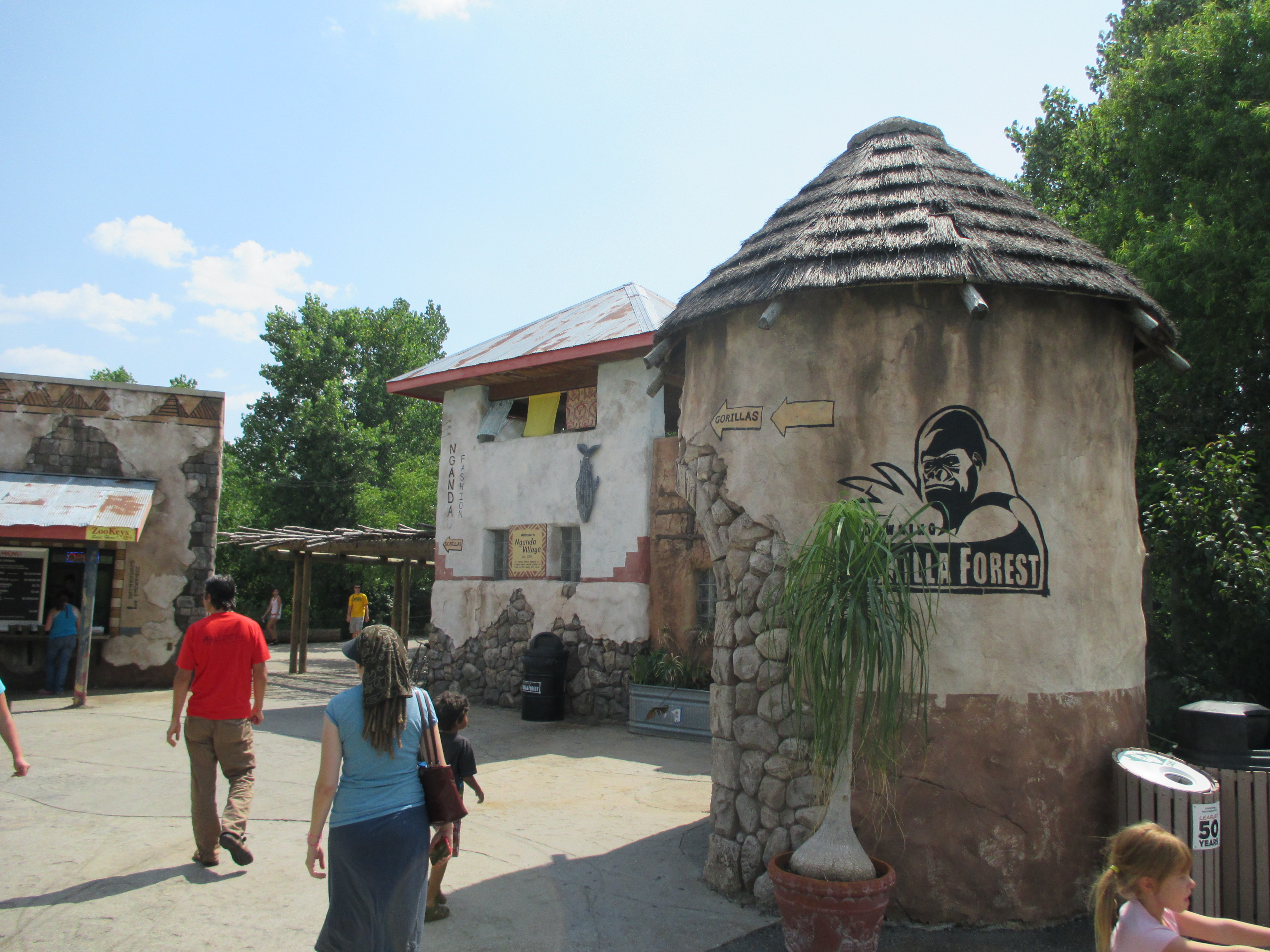 African village-themed area at the entrance to Downing Gorilla Forest at Sedgwick County Zoo in Wichita, Kansas